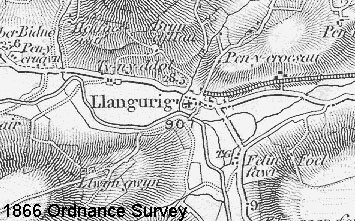 Facsimile of 1866 Ordnance Survey map of Llangurig, showing the extent of construction of the final section of the ill-fated Manchester and Milford (Haven) Railway. Railway is the hatched double-line entering map from mid right-hand edge.